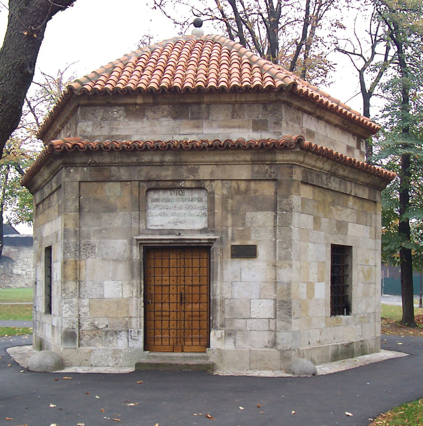 Corrected purple fringing in Image:Turbe_mhn.jpg